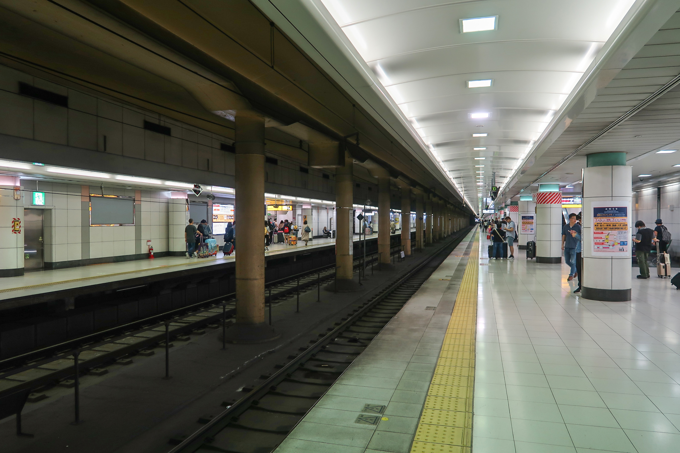 Narita Airport Terminal 2·3 Station